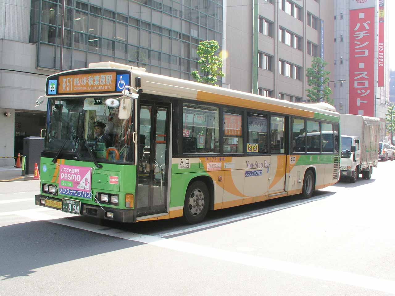 Toei Bus CHA51 route（茶51：from Ochanomizu to Komagome） goes to Akihabara station since March 2007. Model: Hino Rainbow KL-HR1JNEE License plate: TKN200KA-894（練馬200か・894） Operating base: Sugamo Dept. Place: neighbour of Manseibashi police station: Soto-Kanda, Chiyoda ward, Tokyo Japan